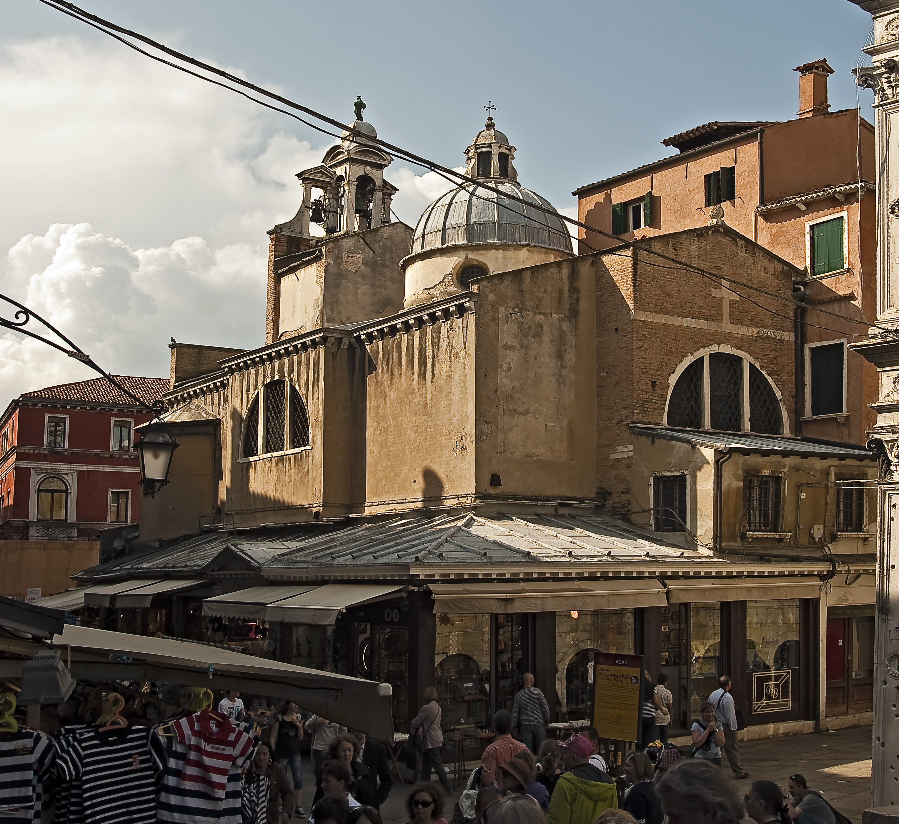 Church of San Giacomo di Rialto (apse) Venice